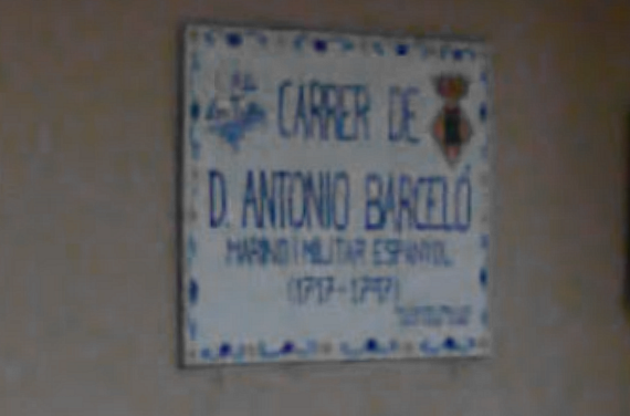 Street sign "CARRER DE D. ANTONIO BARCELÓ, MARINO I MILITAR ESPANYOL (1717-1797)" in the Barcelo street of Castellón de la Plana, Spain.